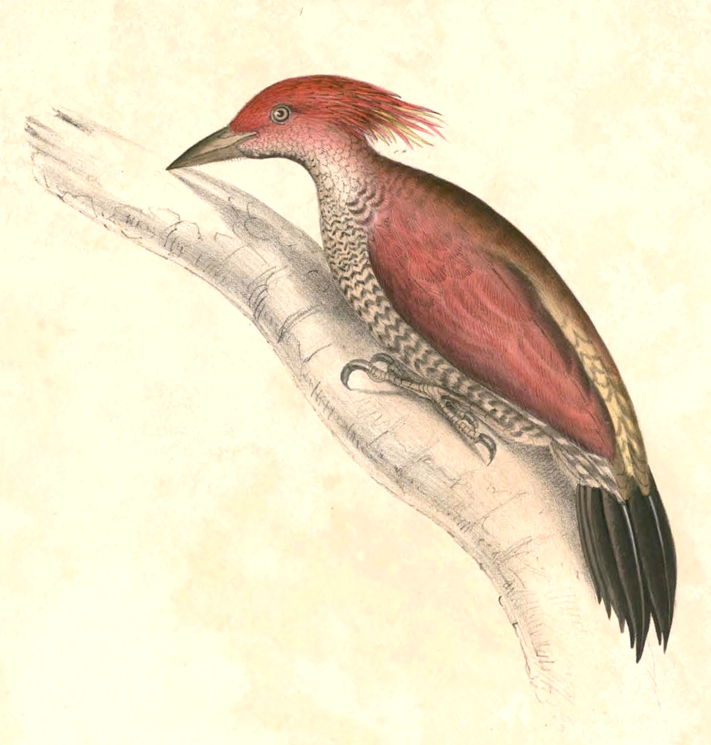 « Picus miniatus » = Chrysophlegma miniaceum (Banded Woodpecker)